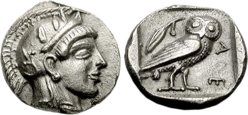 Athens, 465/2-454 BC. AR Obol (0.69 g, 11h). Transitional issue. Helmeted head of Athena right / Owl standing right, head facing, with spread tail feathers; olive sprig behind, AΘE to right; all within incuse square.